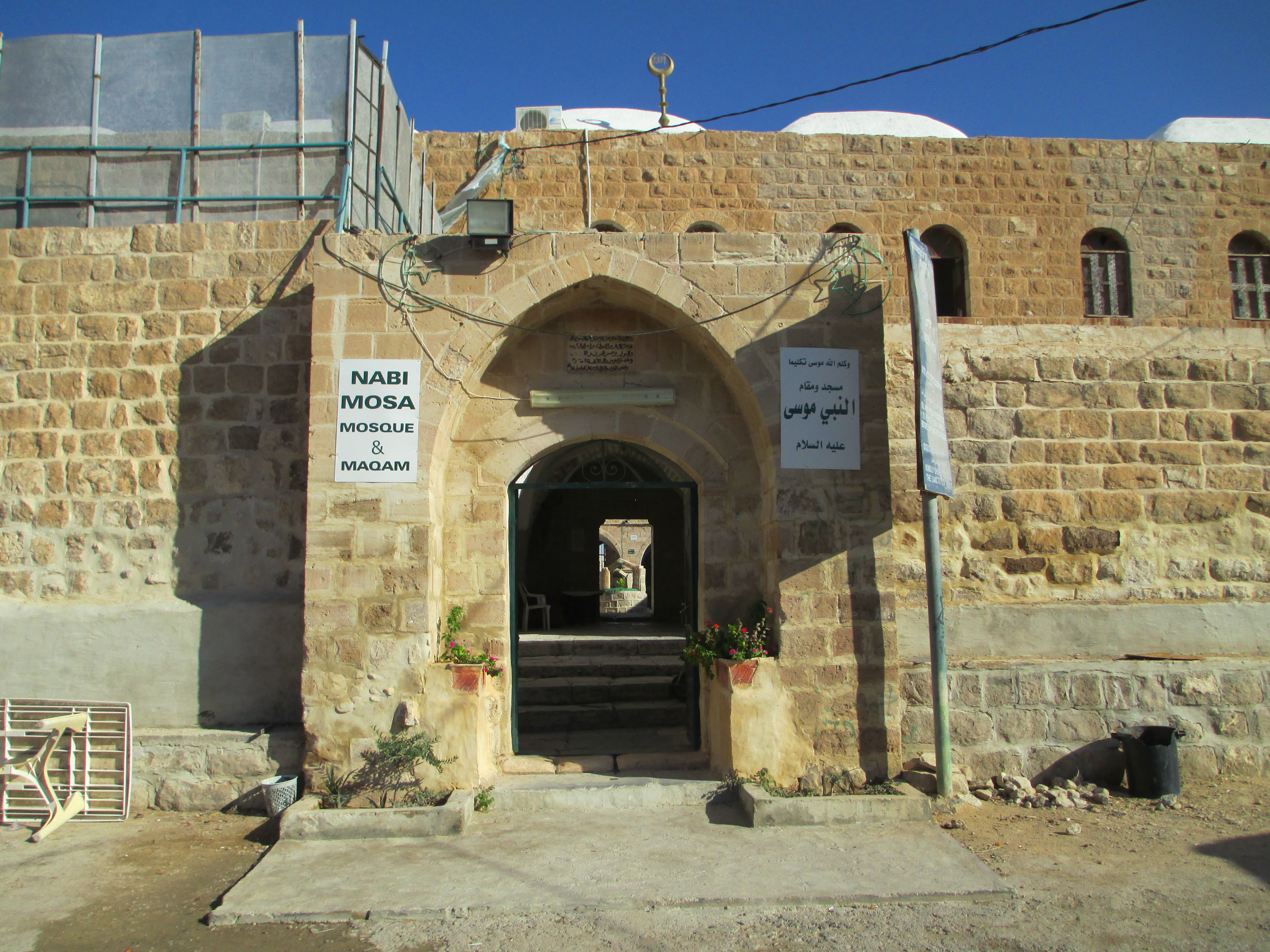 Nabi Musa